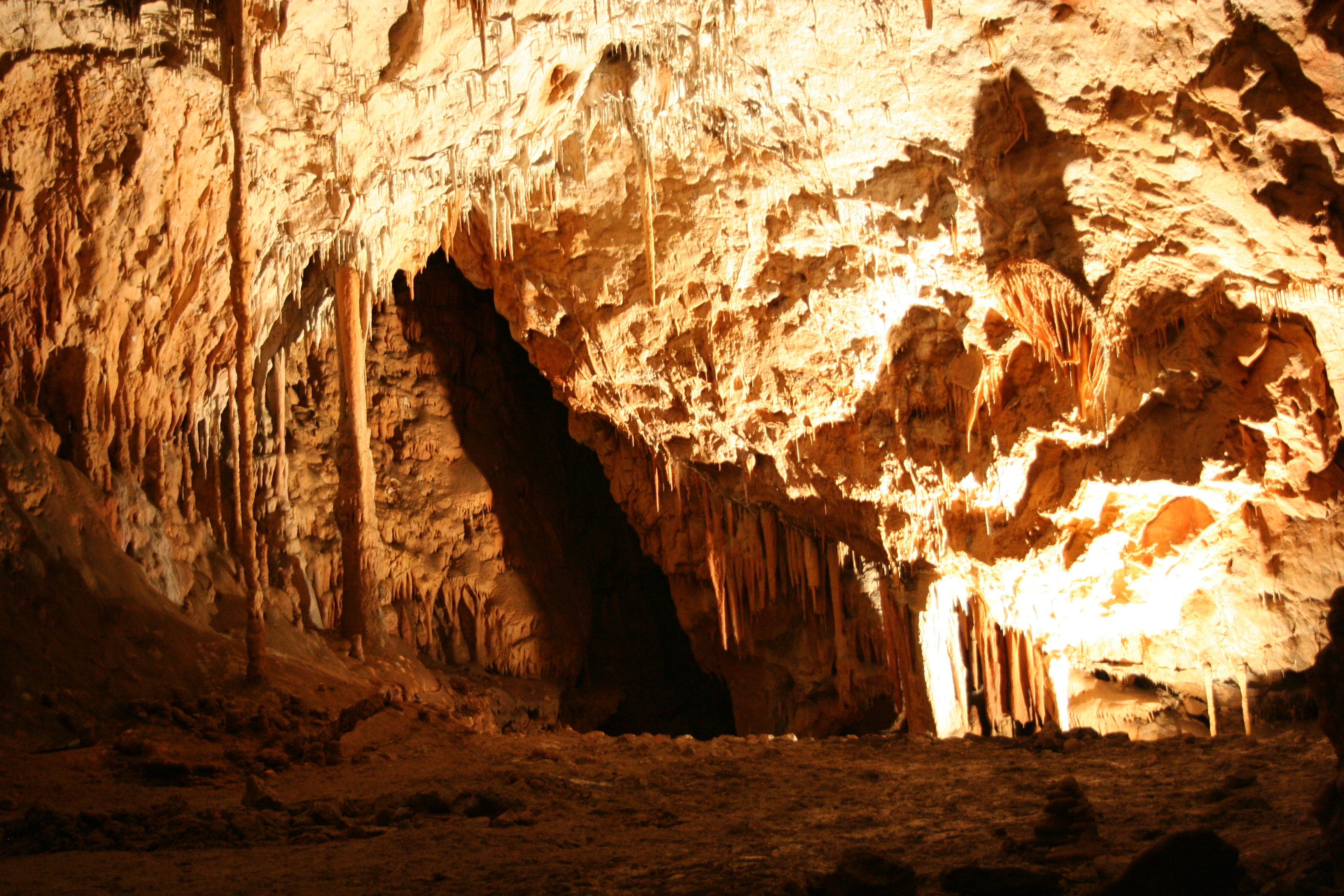 Domica Cave, Slovakia. Taking this photo was made possible through the financial support of Wikimedia Polska.